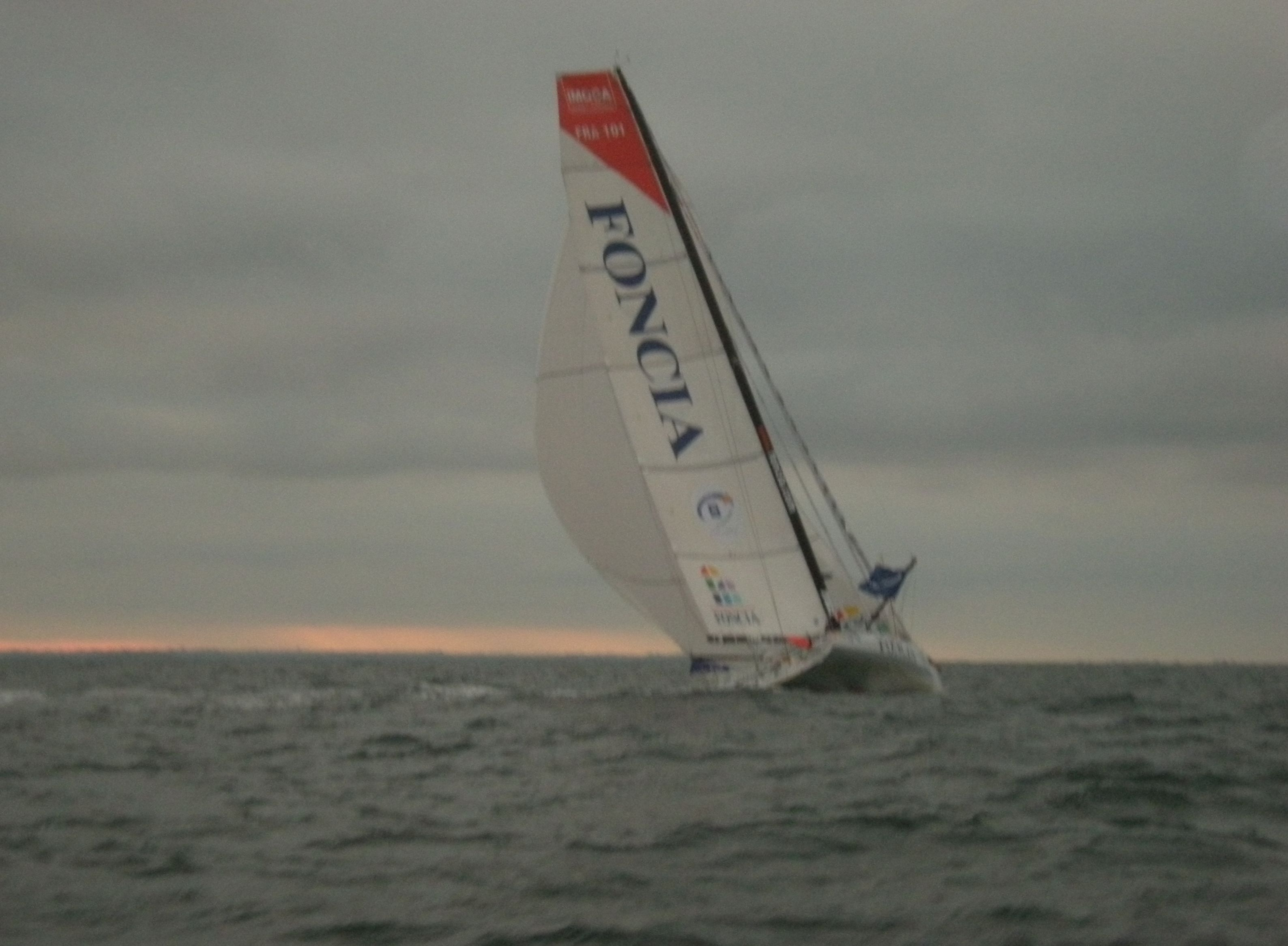 Foncia - Route du Rhum 2010 - N-E Bréhat